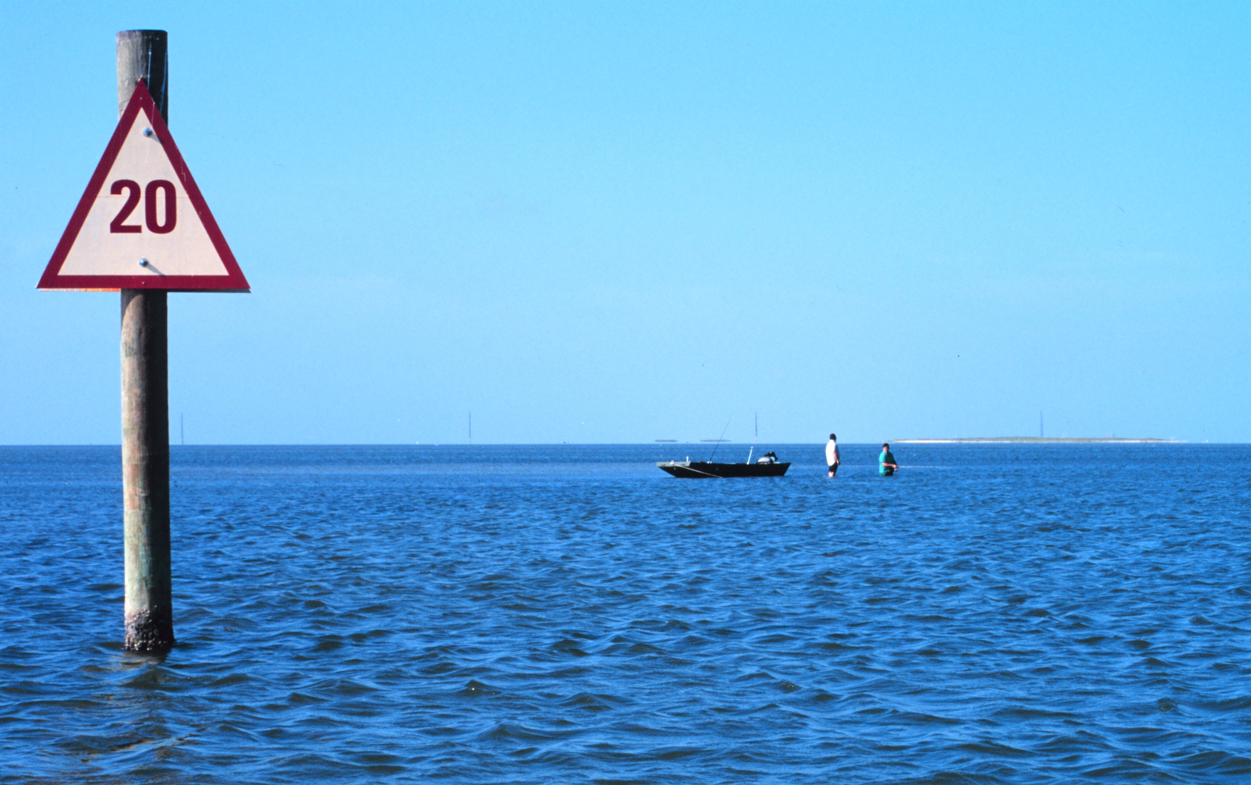 Photos and maps related to Padre Island. Padre Island National Seashore - fishing in Laguna Madre